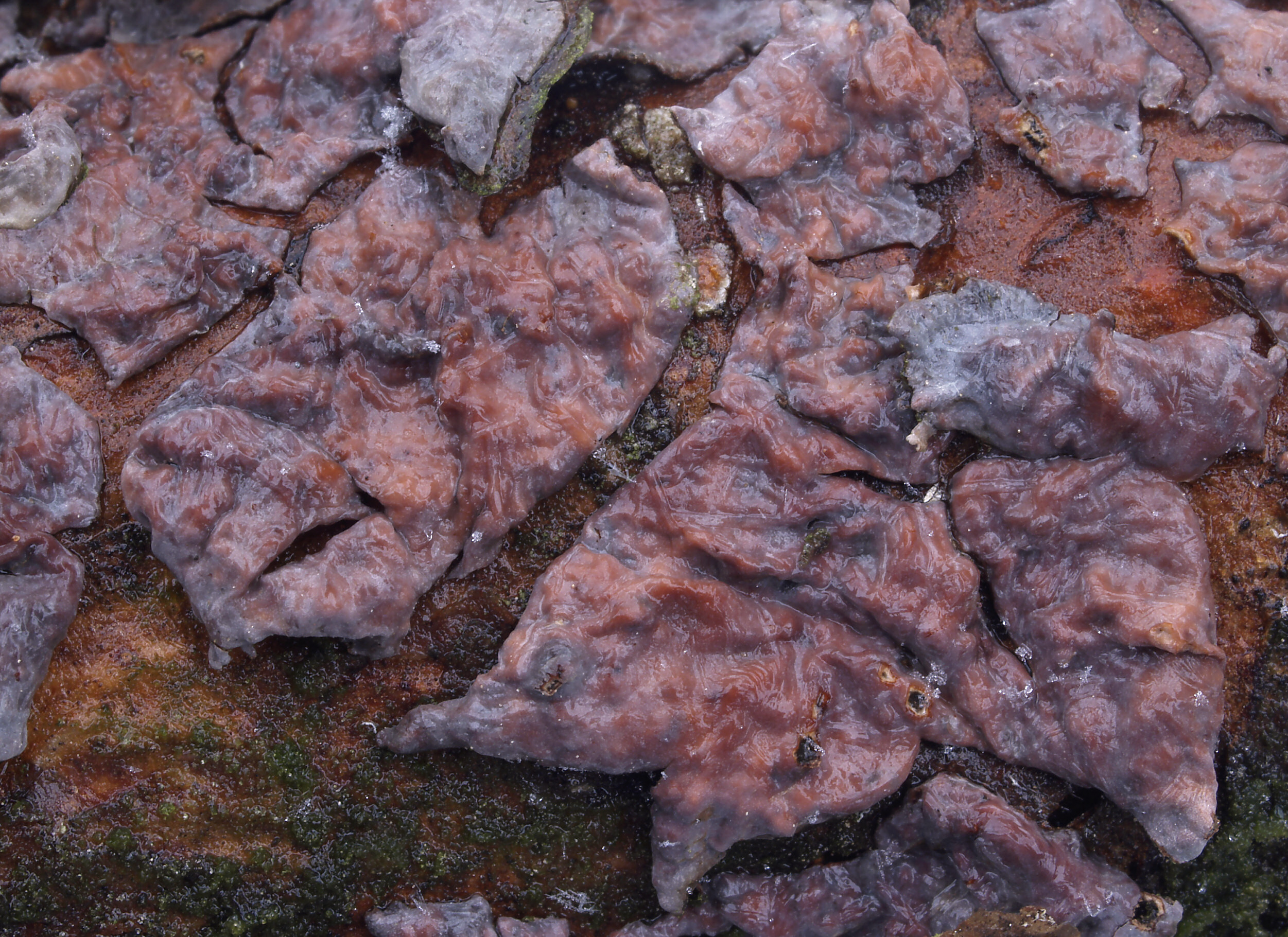 Peniophora pini